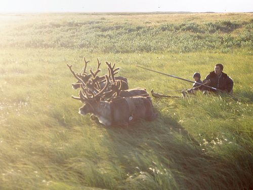 Location:Nenetsia. Nenets - sledging in the morning, Reindeerherders on a sledge early in the morning, coming down to the beach where we had been dropped of by local fisherman. Not knowing what to expect we had a large expeditioncrate with us, which of course did not fit on the sledge, so we left all our gear behind on the beach (who would be stealing anything), put a note on it for safety purposes saying with whom we had left for the tundra and set of on the back of the sledge to the Nenets camp, some 4 hours sledging away. 5 days later, the crate was still there, with a second note wishing us good luck and confirming we would be picked up by someone on day 6! Amazing people! 2004.